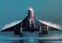 A Concorde aircraft shown taking off